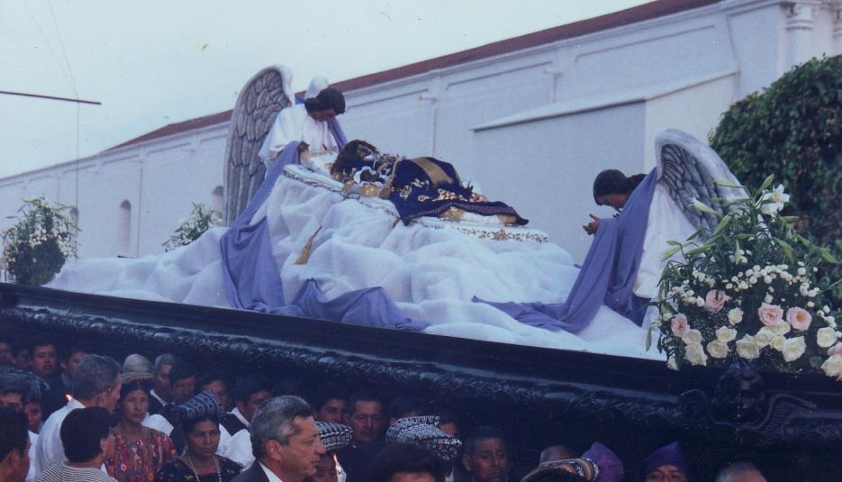 Señor Sepultado San Cristóbal Verapaz